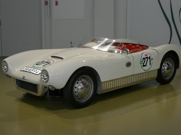 Saab 94 (Sonett I)